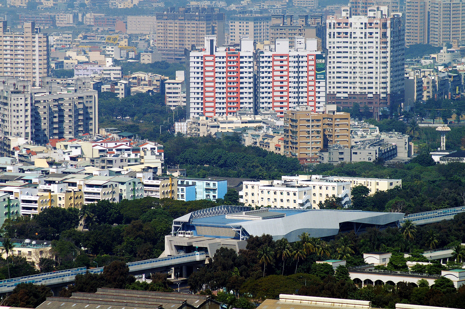 KMRT Oil Refinery Elementary School Station.